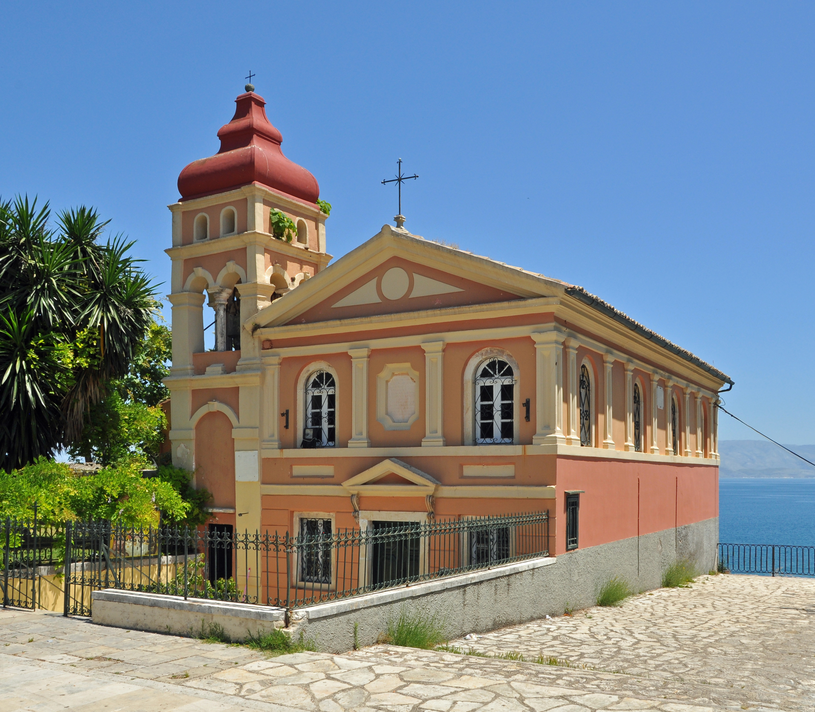 Corfu town (Corfu Island, Greece): the Panagia Mandrakina or church of the Virgin Mary Mandrakina